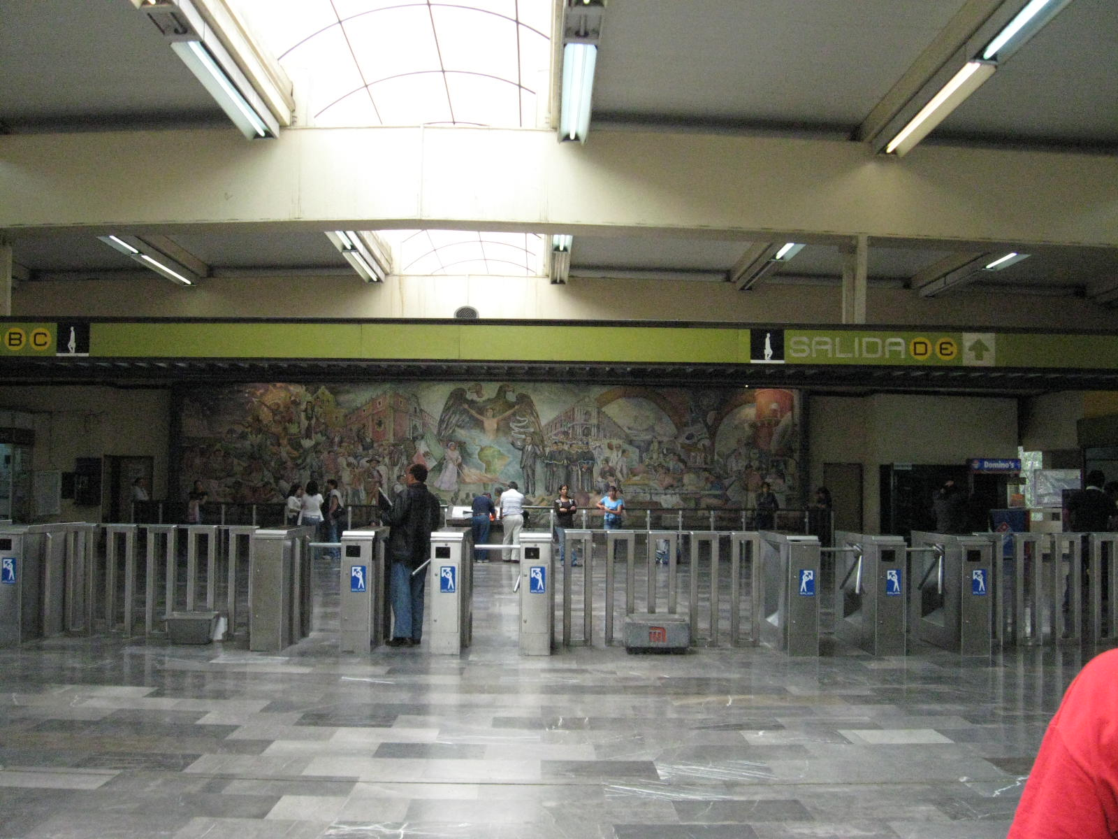 One of the murals painted on the Metro Universidad Station. It was painted by Arturo Garcia Bustos and titled "La Universidad en el umbral del siglo XXI. Dated 1989.